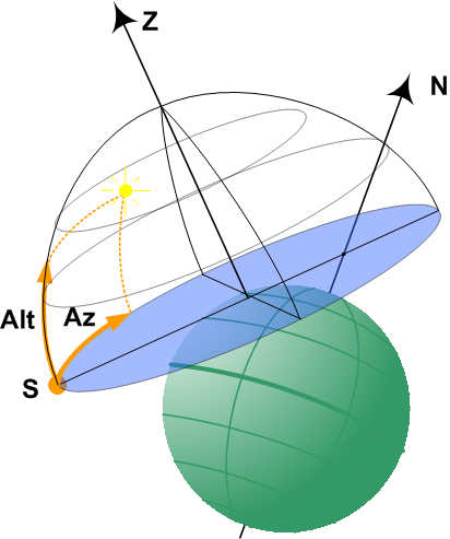 Horizontal coordinates Altitude (Elevation) and Azimuth